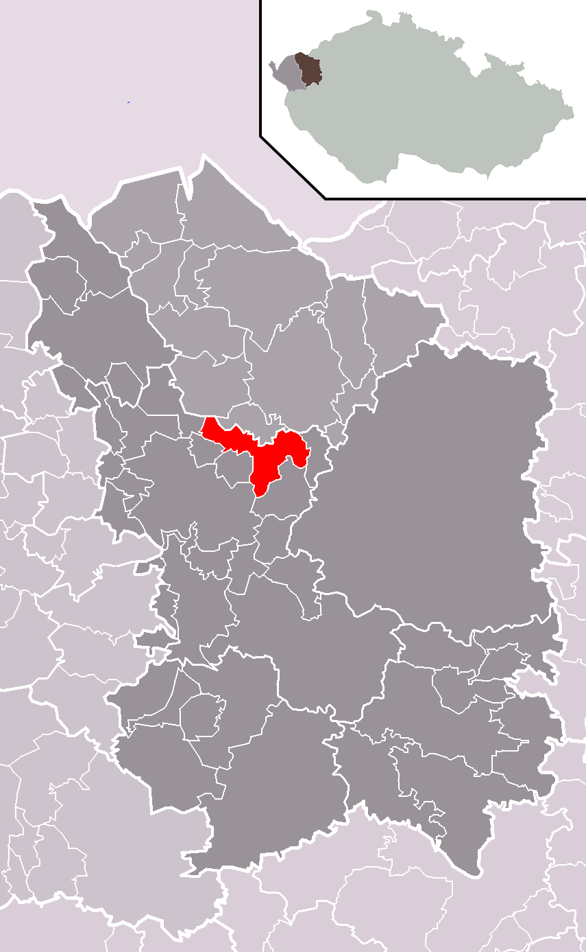 Location of Sadov municipality within Karlovy Vary District and administrative area of Karlovy Vary as a Municipality with Extended Competence.